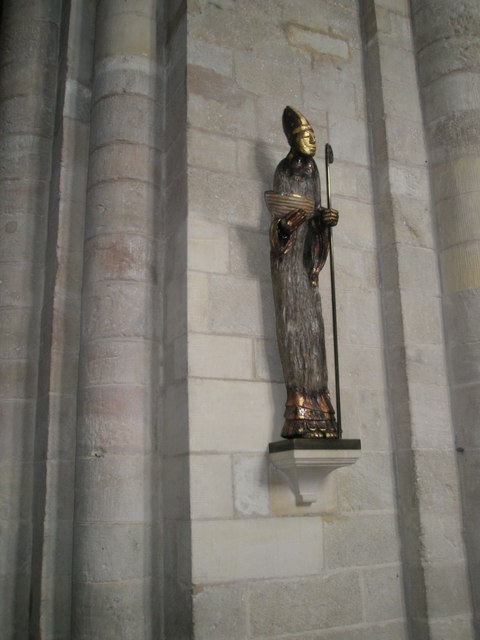 Narrow statue on the wall of the south transept at Romsey Abbey